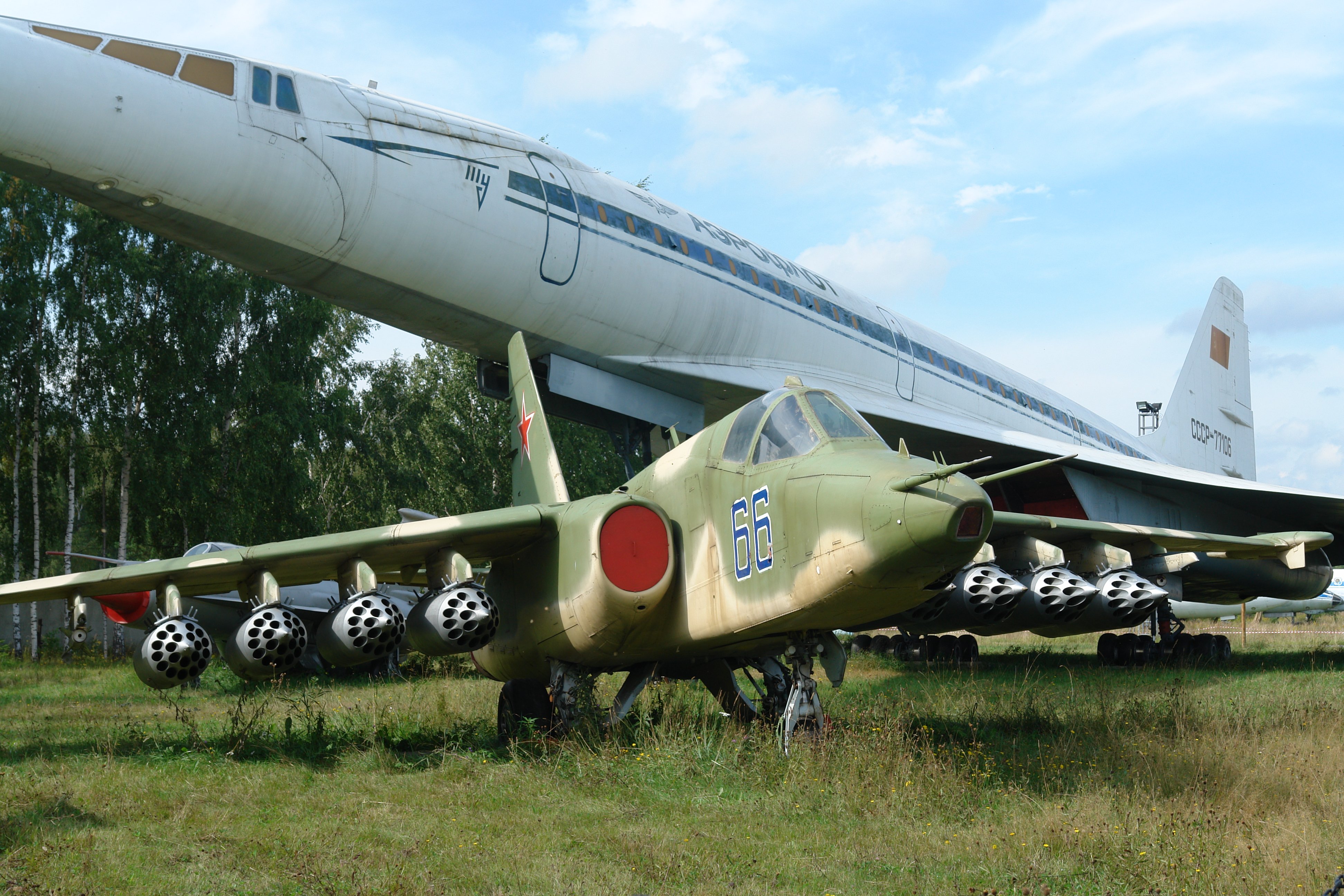 Sukhoi Su-25 (Frogfoot) at Monino Central Air Force Museum (Moscow)